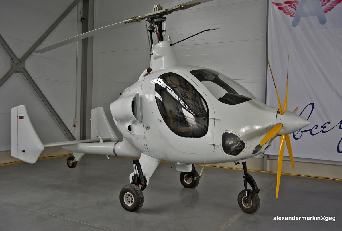 GyRos-2 Smartflayer